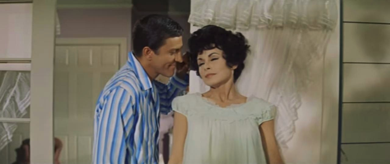 Dick Van Dyke & Janet Leigh in Bye Bye Birdie - trailer (cropped screenshot)